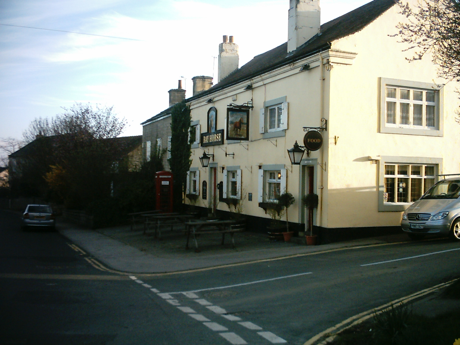 The Bay Horse at Kirk Deighton, North Yorkshire, close to Wetherby, West Yorkshire.